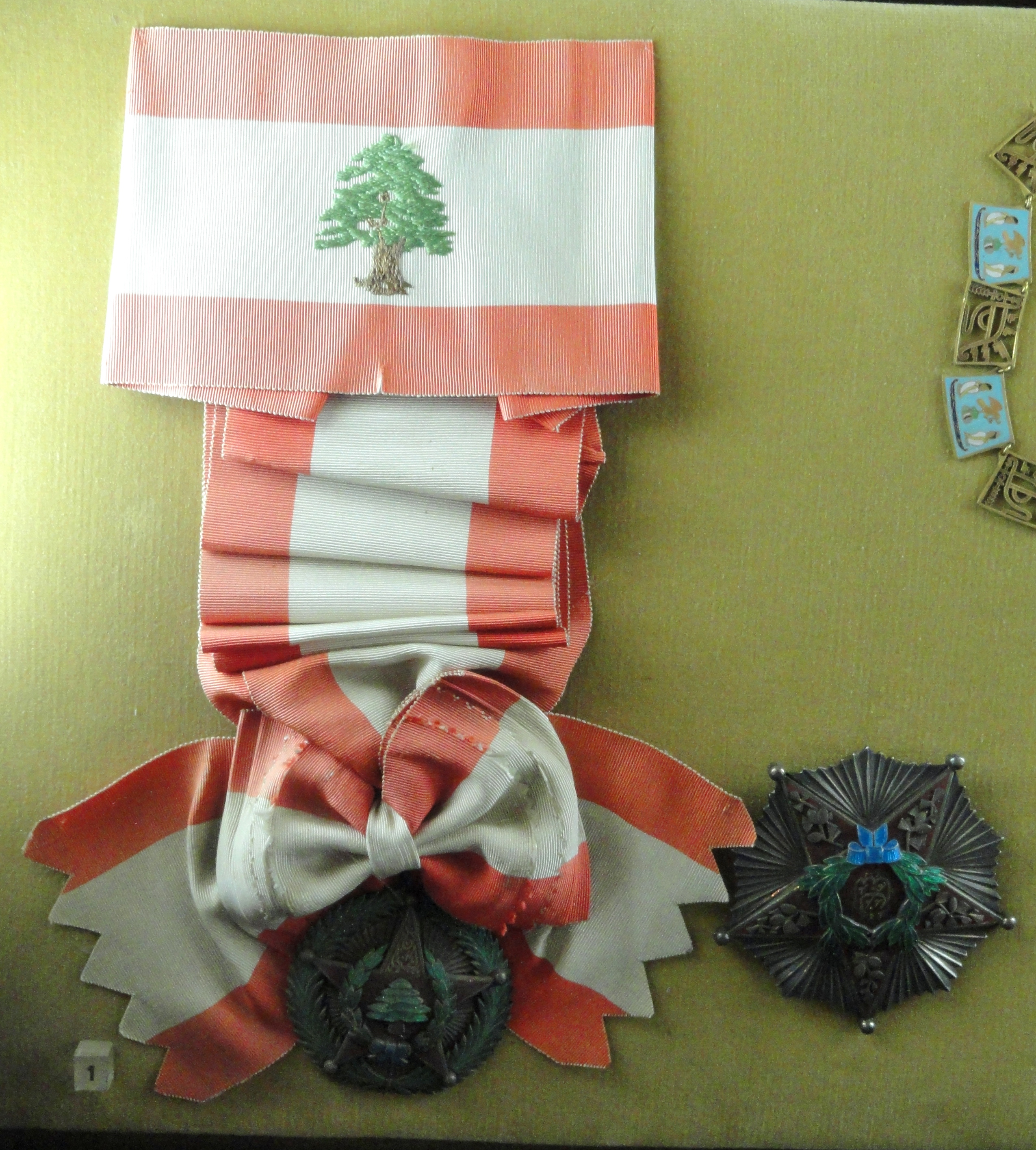 Lebanese order of Merit, extraordinary grade. IExhibit in the Memorial JK, Brasília, Brazil.